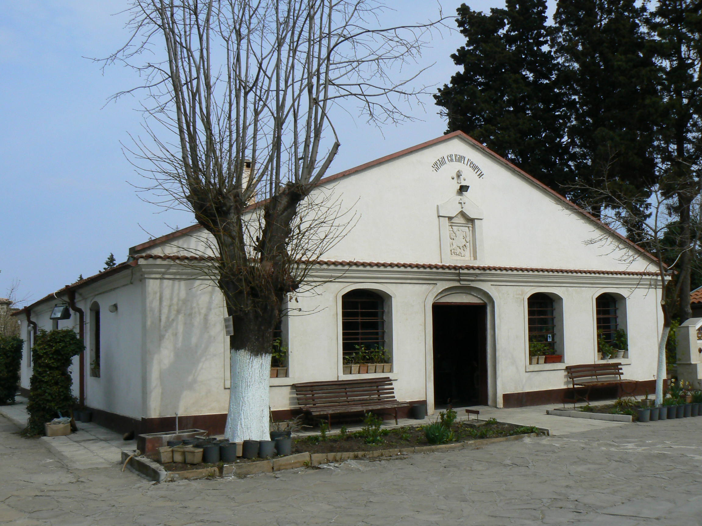 Church "St. George" in Pomorie Monastery, Bulgaria